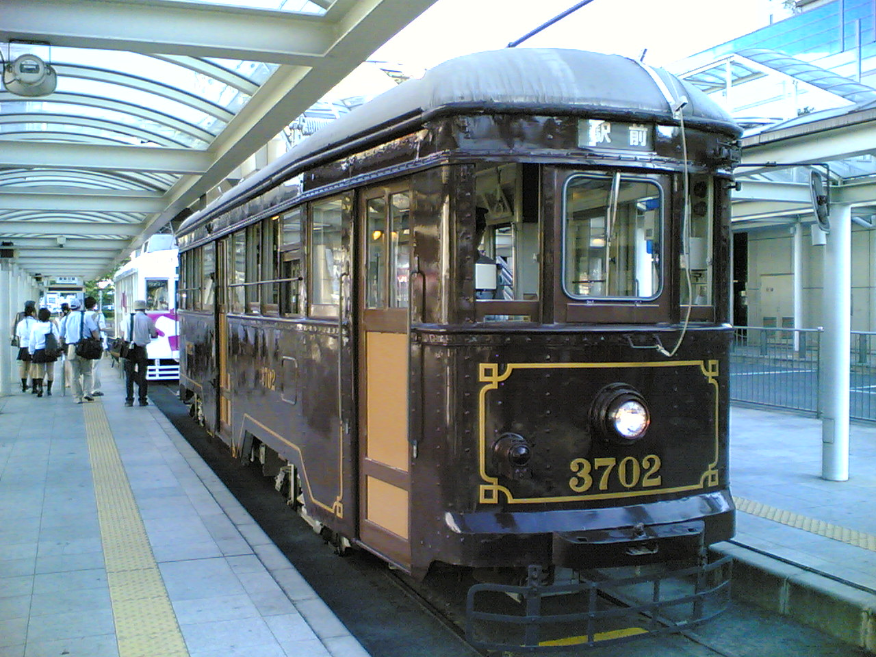 Toyohashi Rail Road 3700 series tramcar at Ekimae Tram Stop